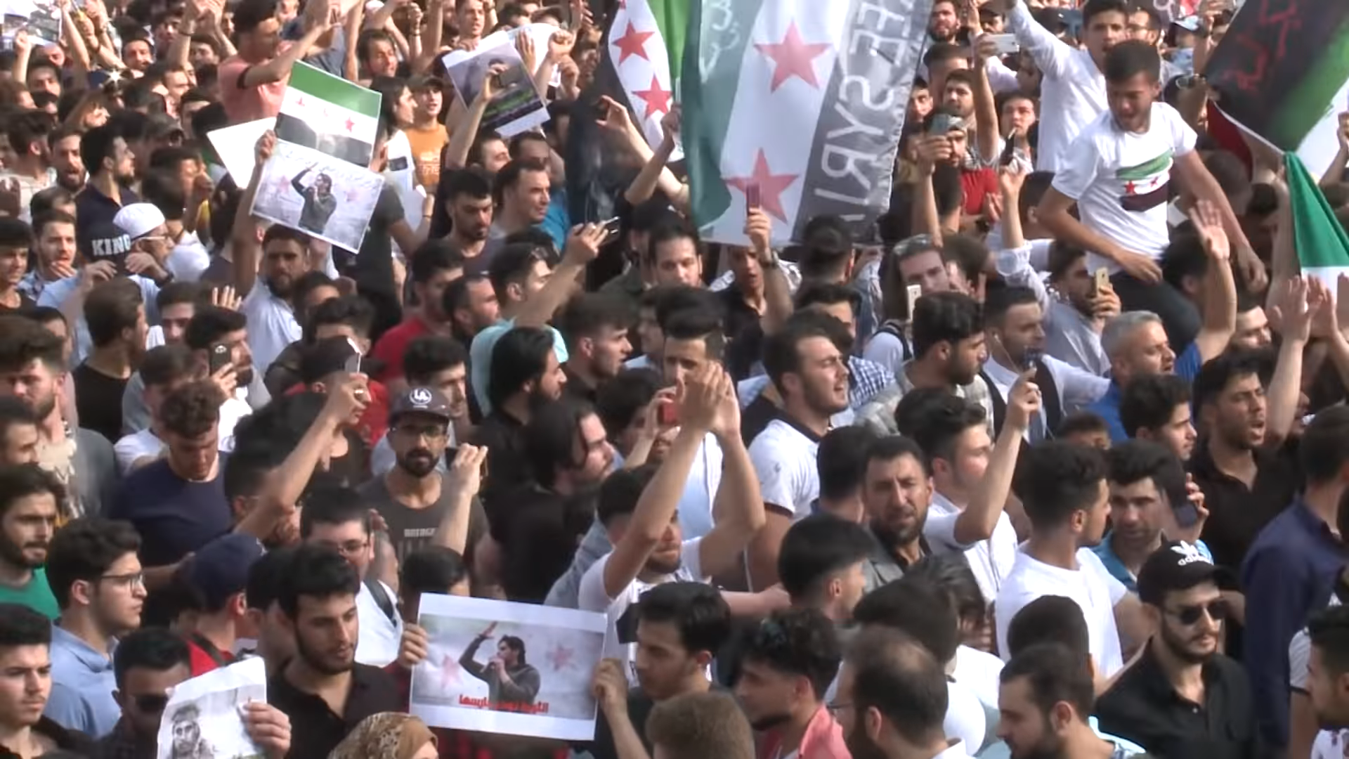 Syrian rebel supporters demonstrate after they held a prayer for killed rebel leader Abdul Baset al-Sarout at the Fatih Mosque in Istanbul.